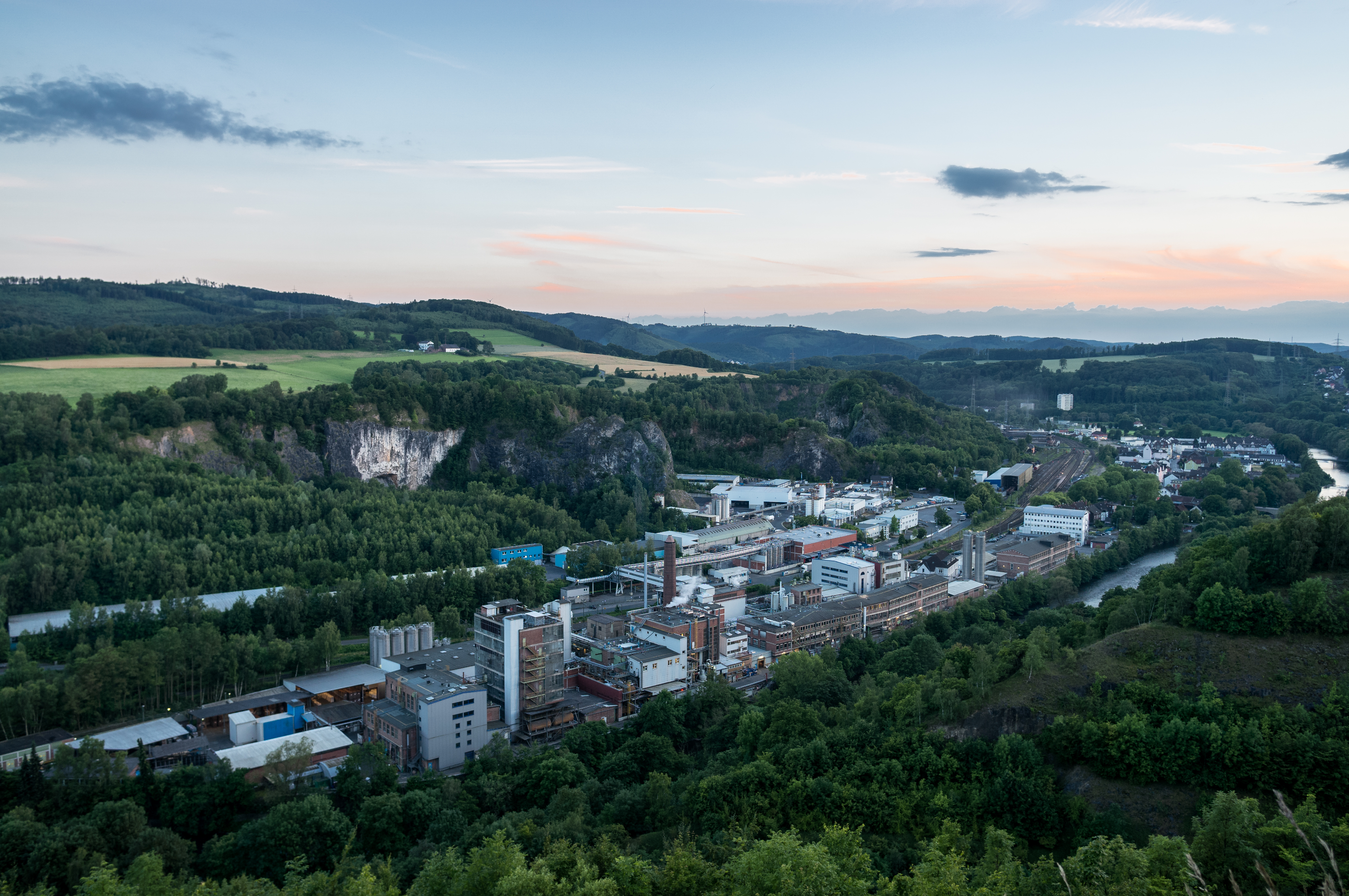 In close proximity to the industrial area of the district Genna the nature reserves quarry Kupferberg (ID: BK 4611-905) with its characteristic bright northern flank and west of it, the quarry Helmke (ID: BK 4611-902) can be found. The rock consists mainly of devonian compact limestone.